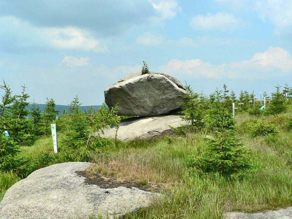 Rocking Stone in Jizerske mountains - Jelení stráň